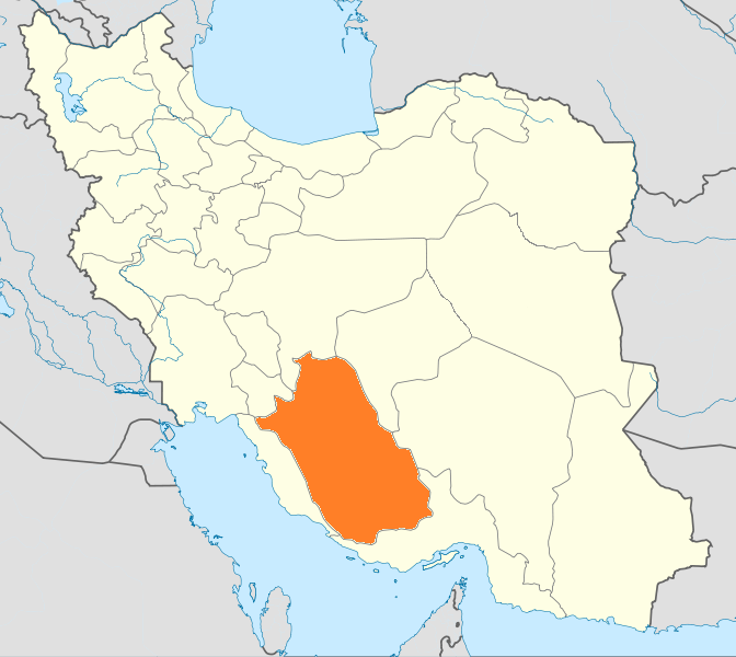 k